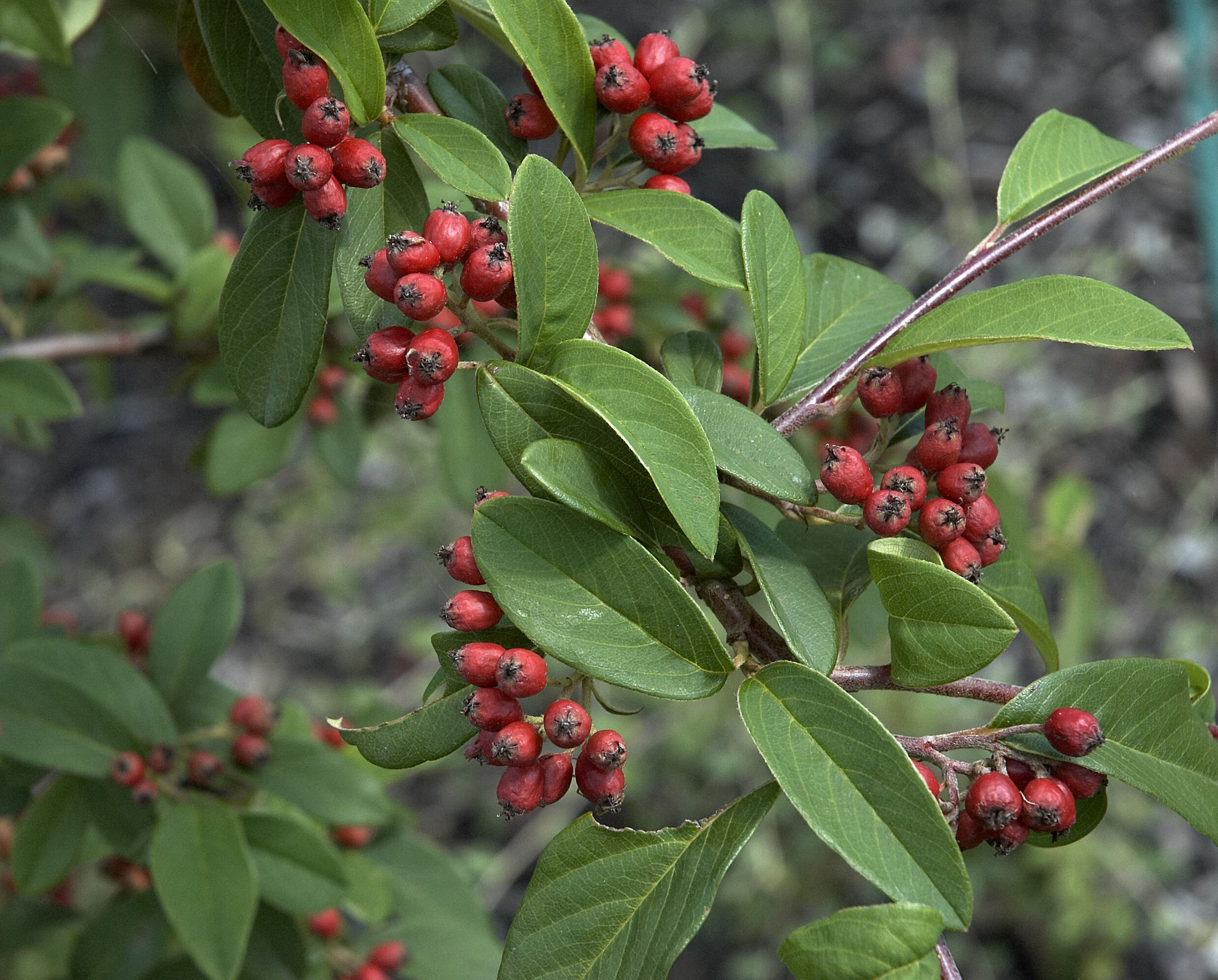 Cotoneaster × watereri 'Pendulus' Other photos of the same plant